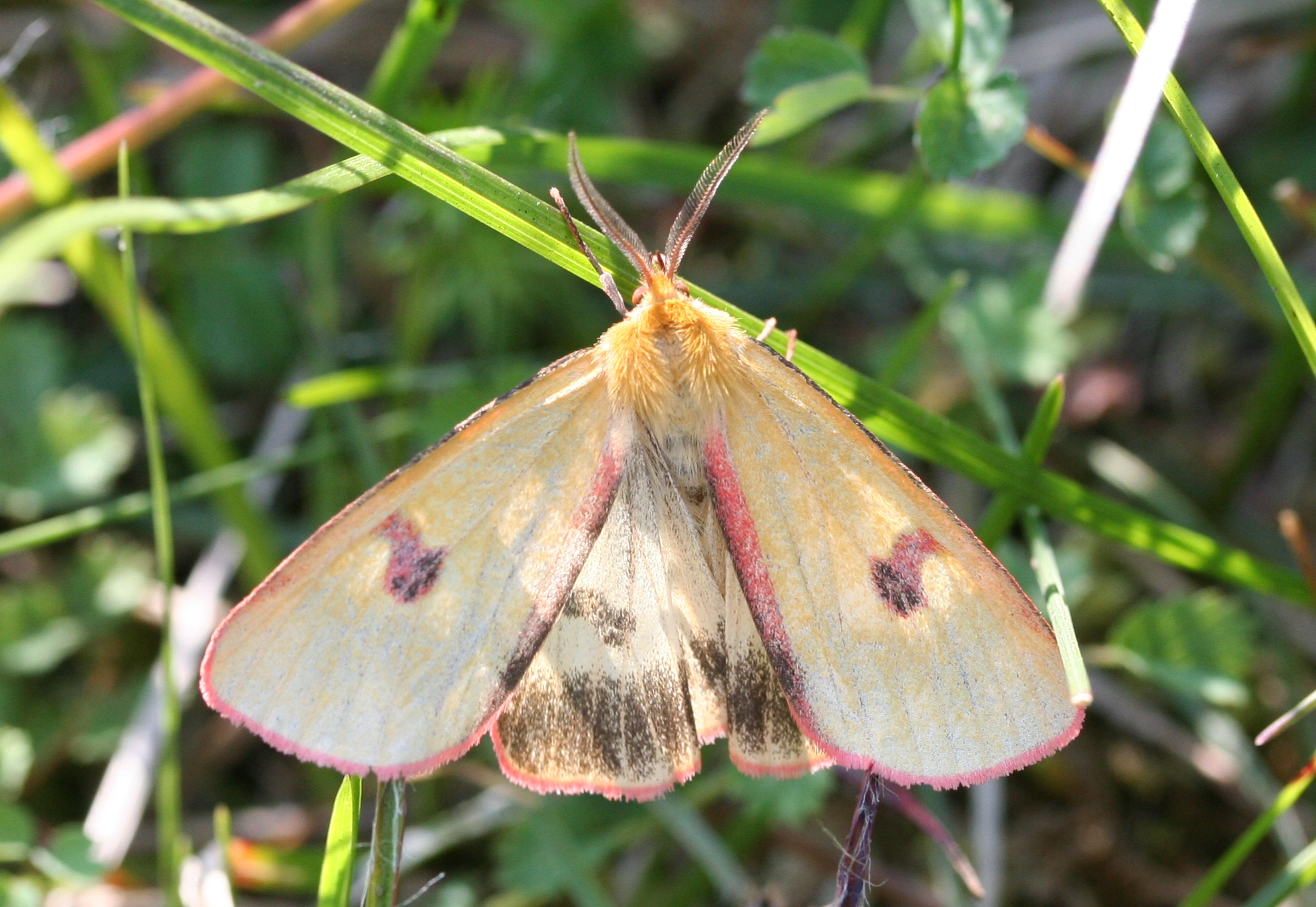 Diacrisia sannio 10 June 2006 IJmuiden, the Netherlands